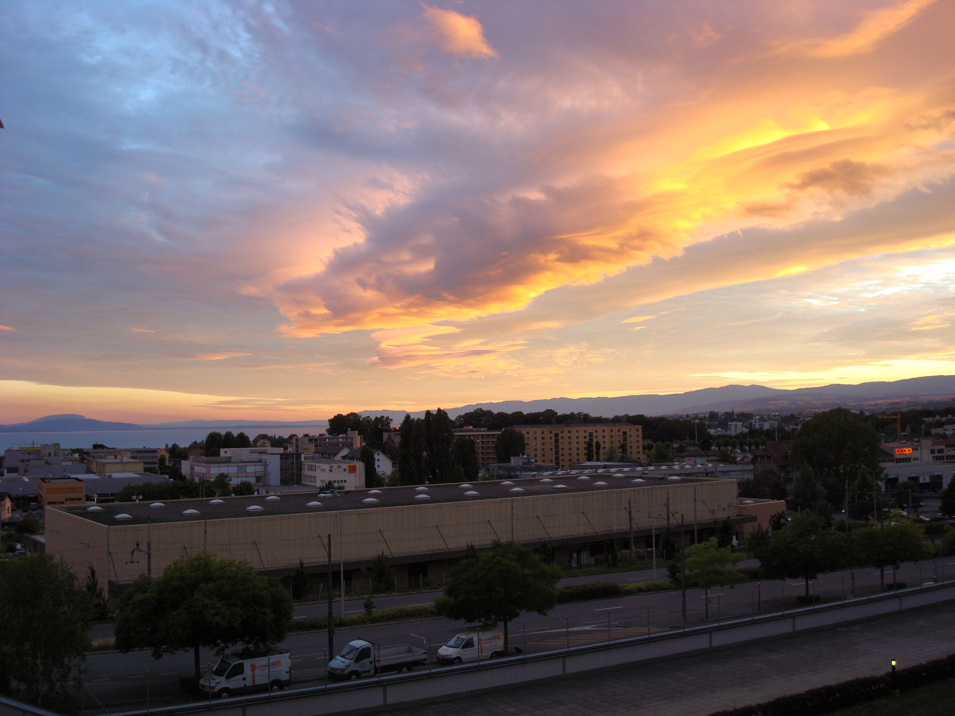 View of Renens close to the night